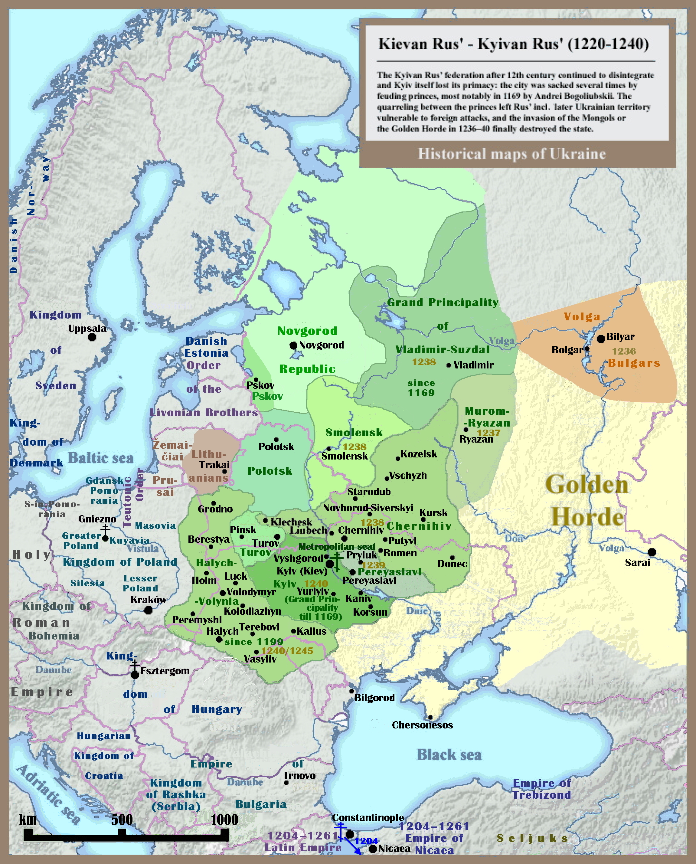 Historical map of Kievan Rus' and territory of Ukraine: last 20 years of the state (1220-1240), english version.